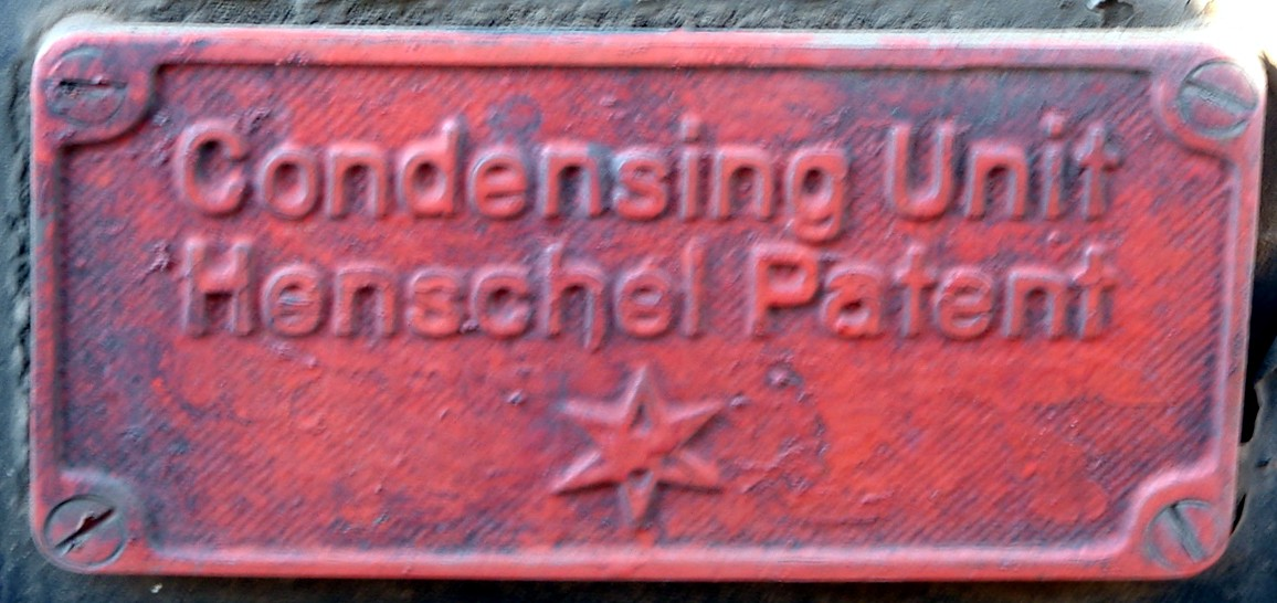 SAR Class 25 3480 (4-8-4) Builder's Number: Henschel 28790 Type: Condensing tender builder's patent plate Location: Beaconsfield, Kimberley, Northern Cape